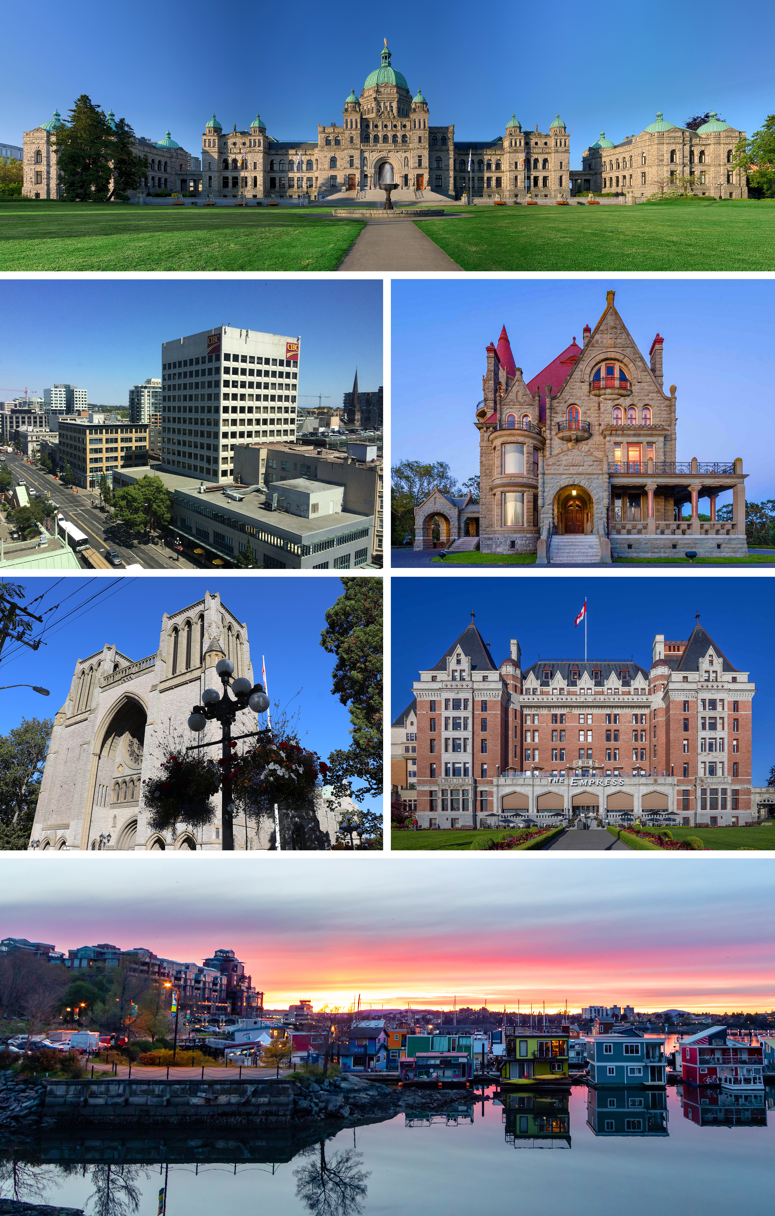 This is a montage of Victoria, BC for 2020